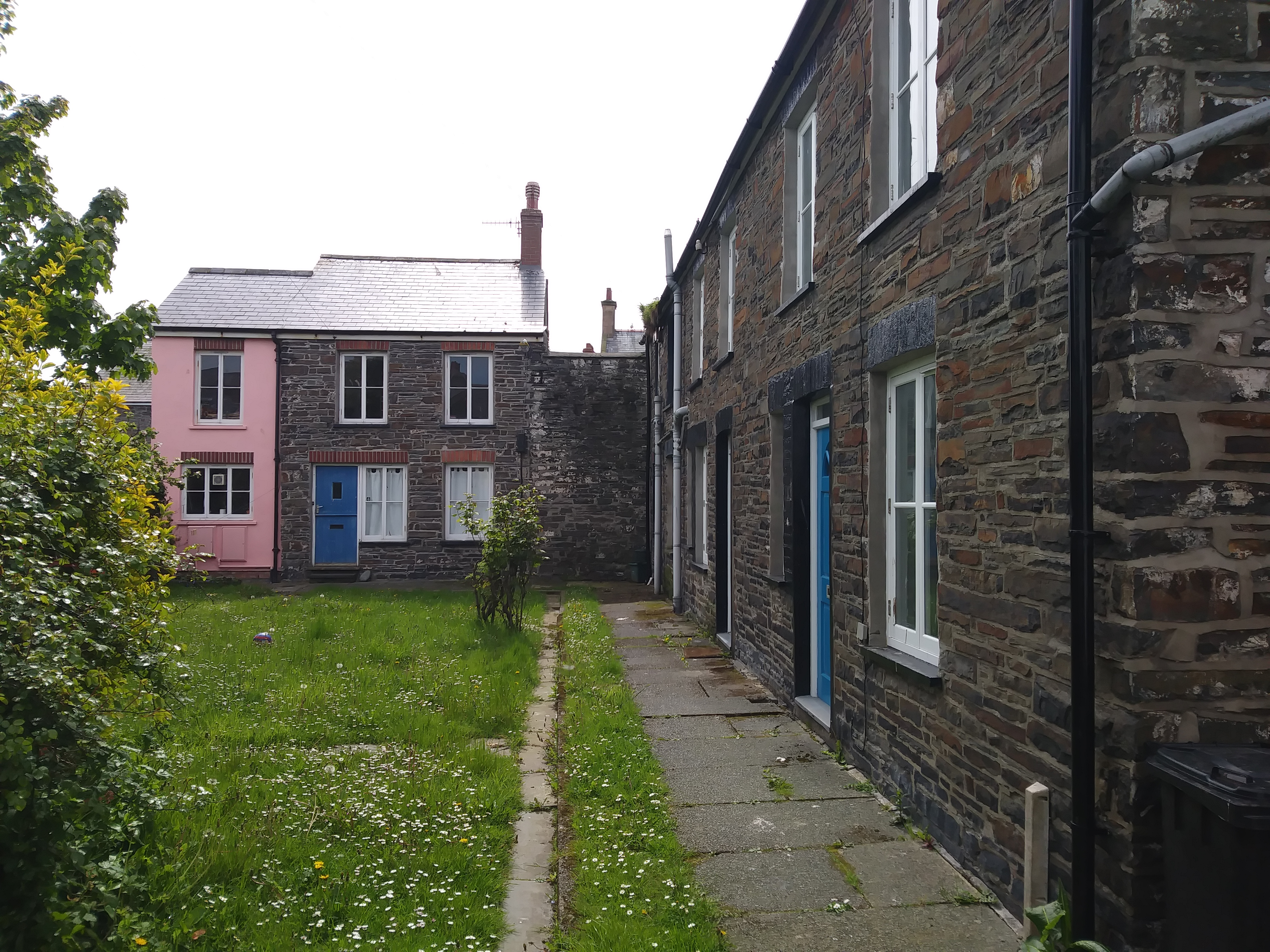 Gateway Buildings, Aberystwyth